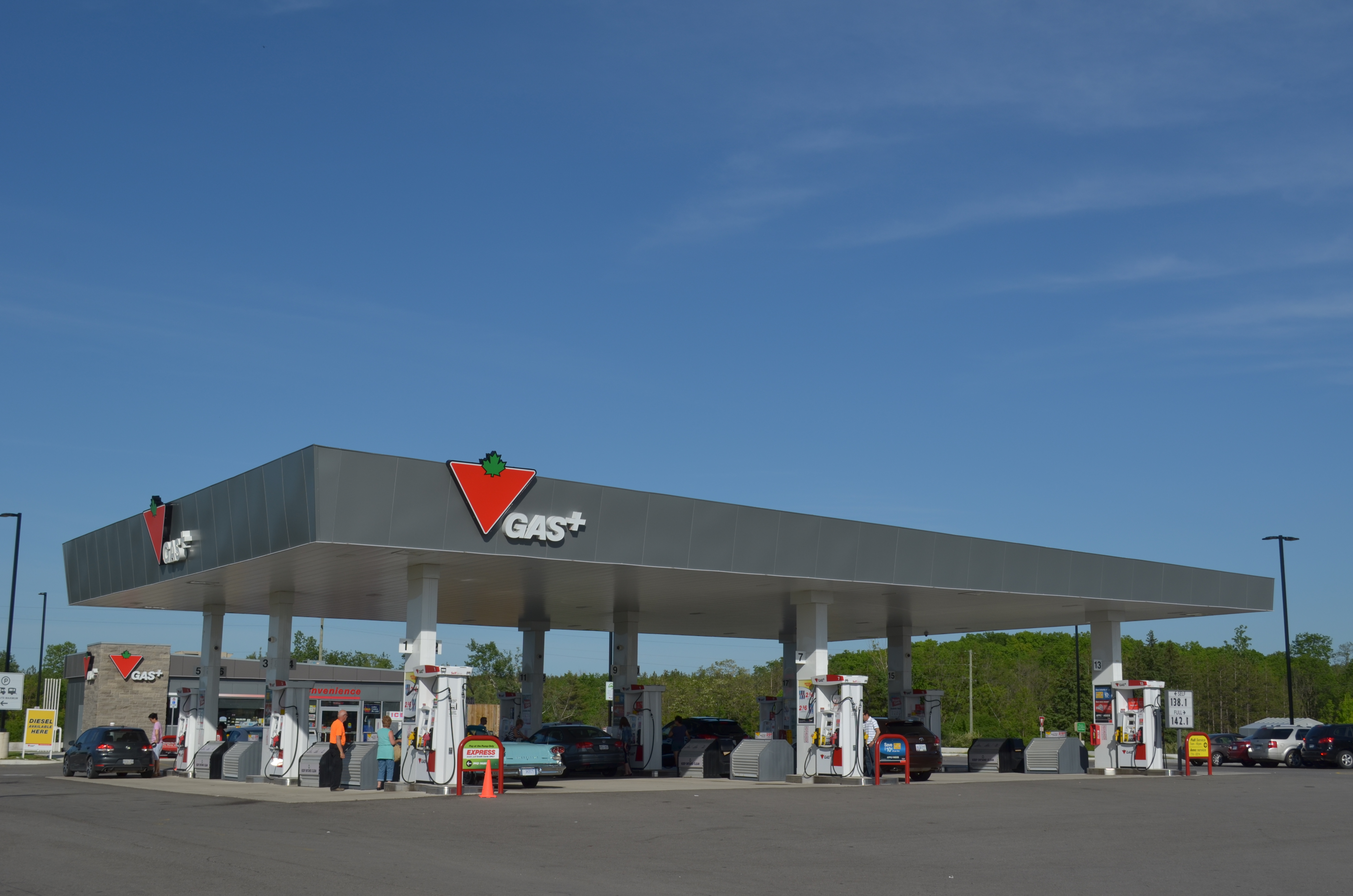 Canadian Tire Gas Station - ONroute Cambridge South